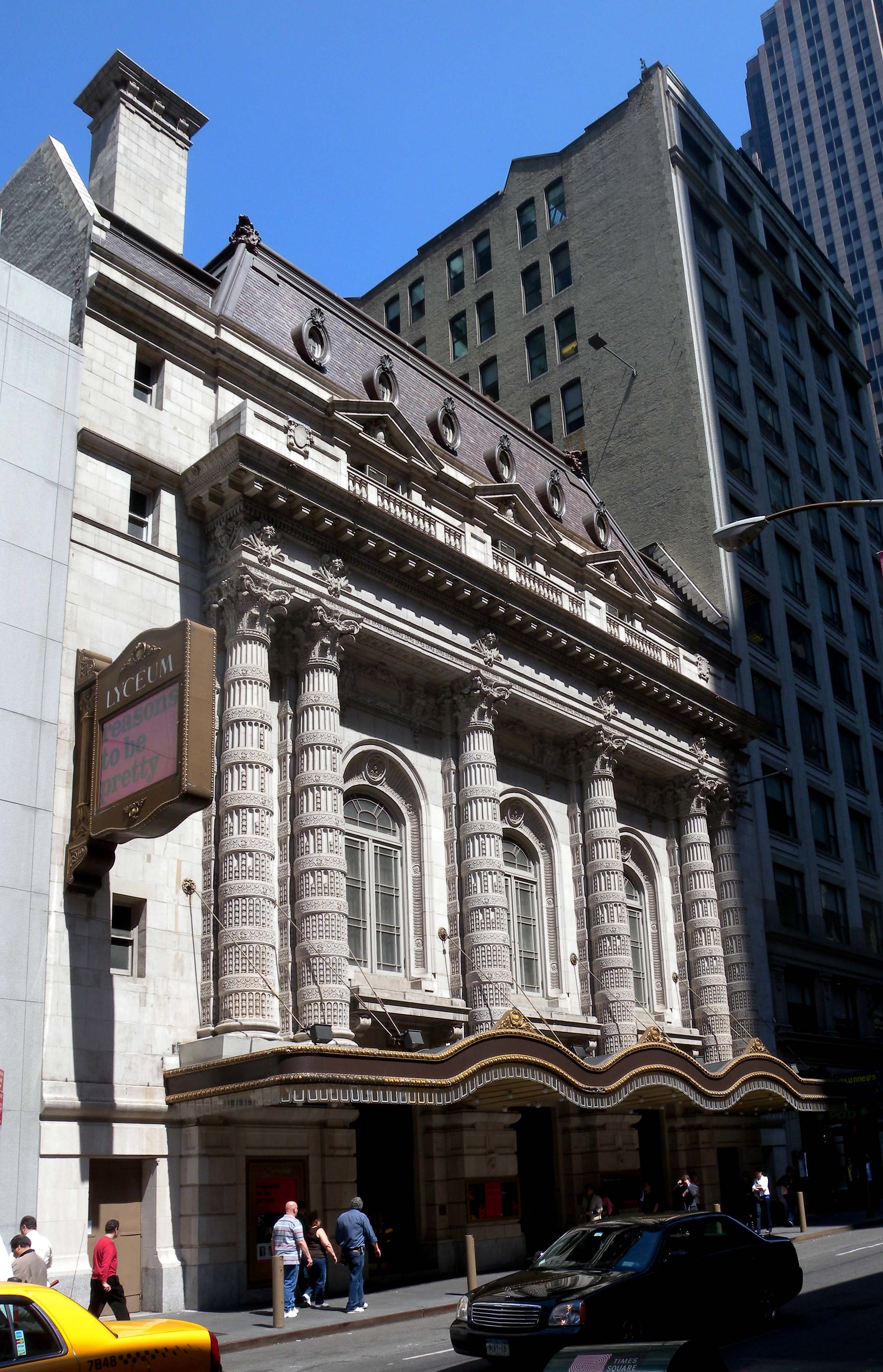 Looking east up West 45th Street at Lyceum Theater with early afternoon sunlight. See also File:Lyceum Theatre NYC 2003.jpg.